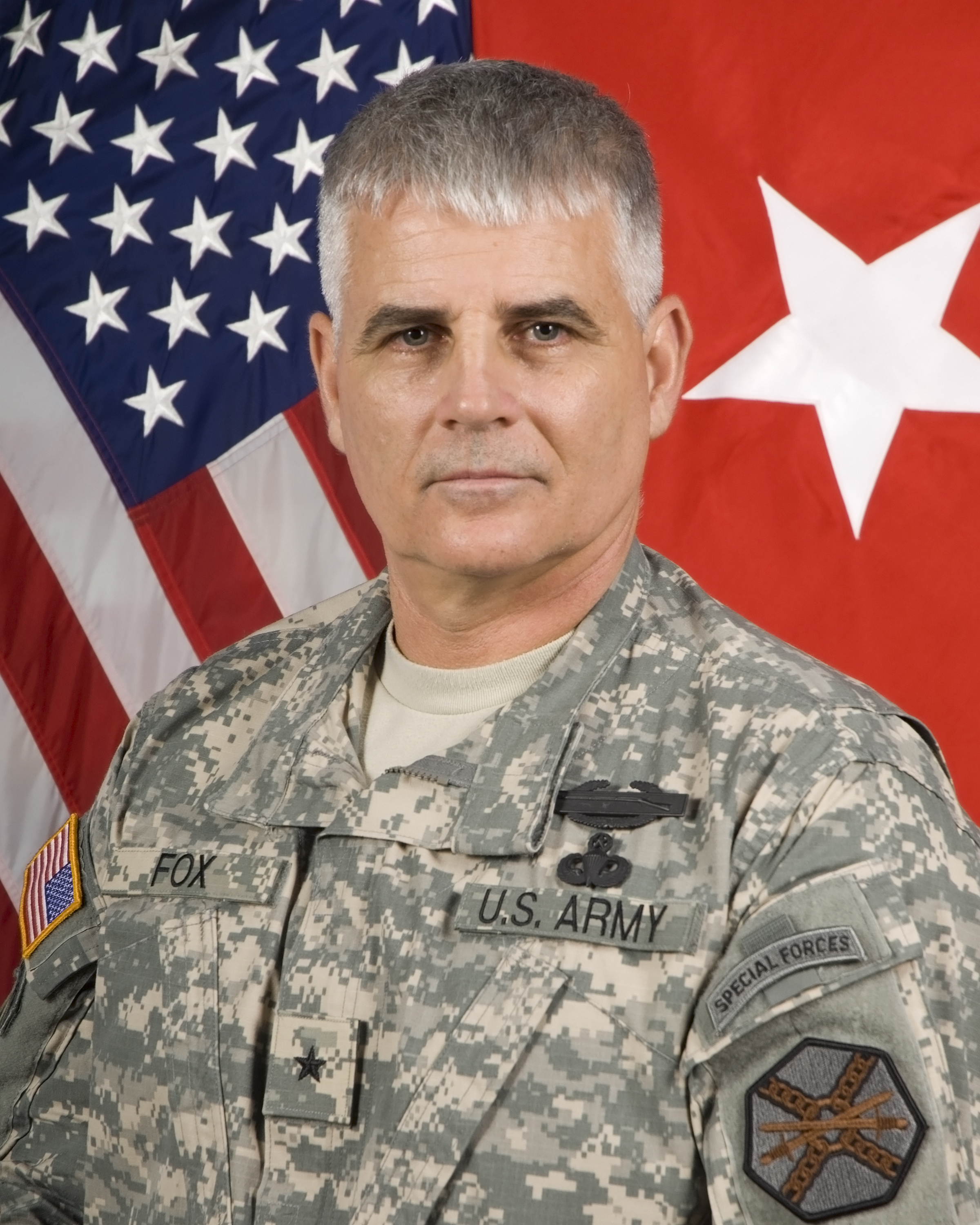 IMCOM Korea Region Commander